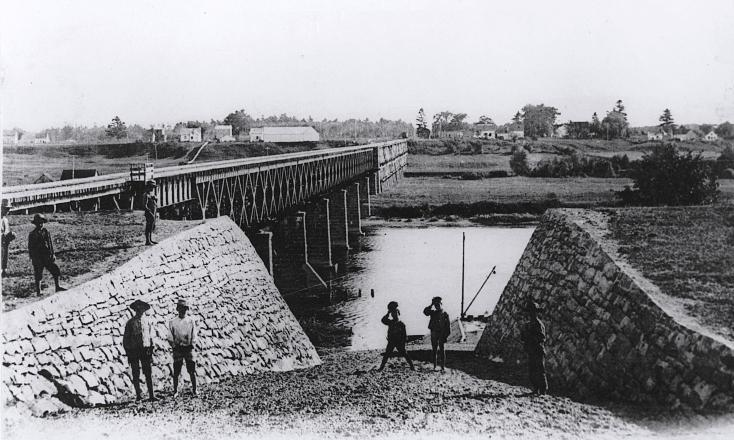 Print, Wharf and bridge at Pierreville, QC, about 1910, Pinsonneault, Ink on paper mounted on card - Collotype - 9 x 13 cm